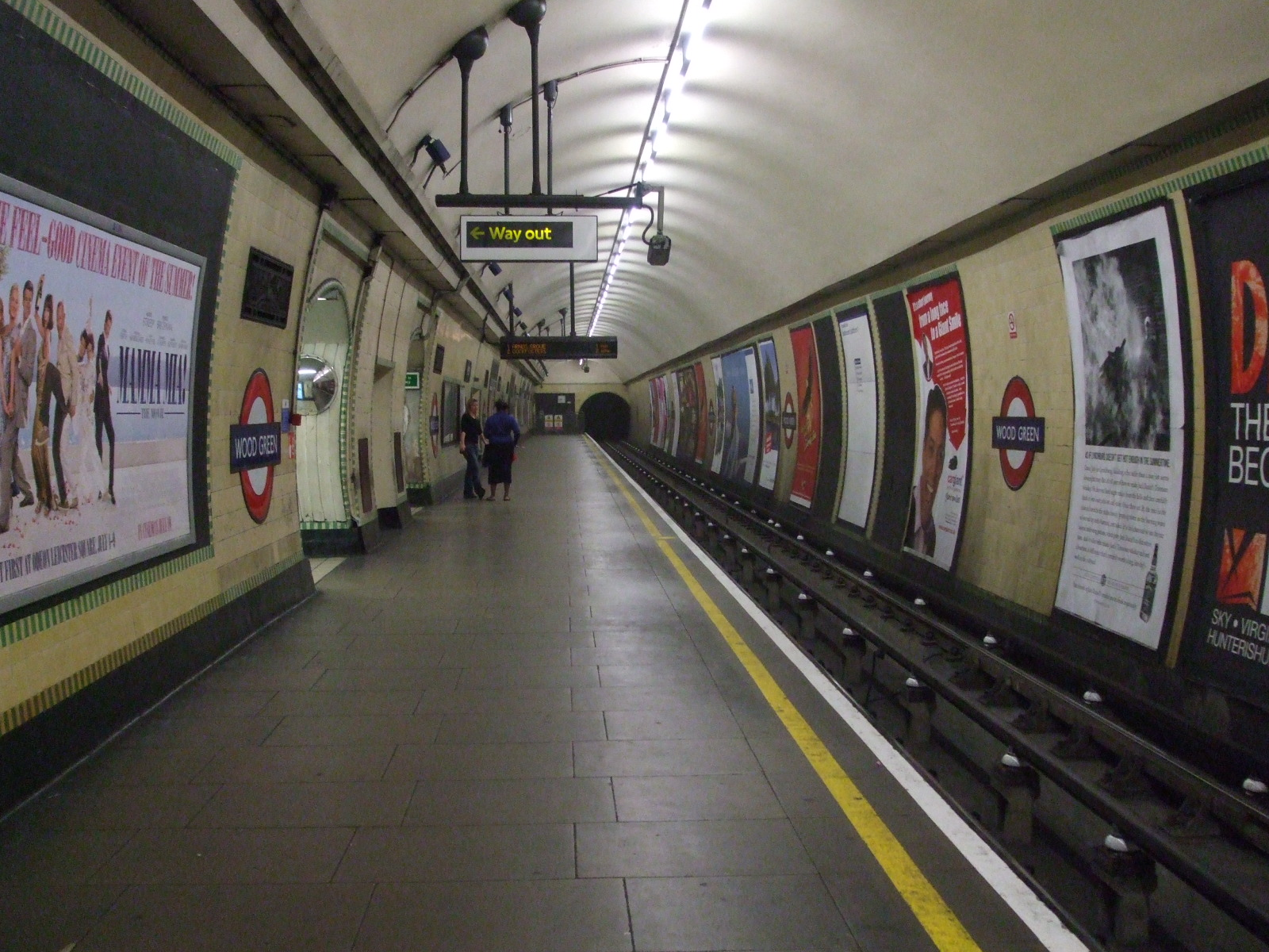 Wood Green tube station northbound platform looking south